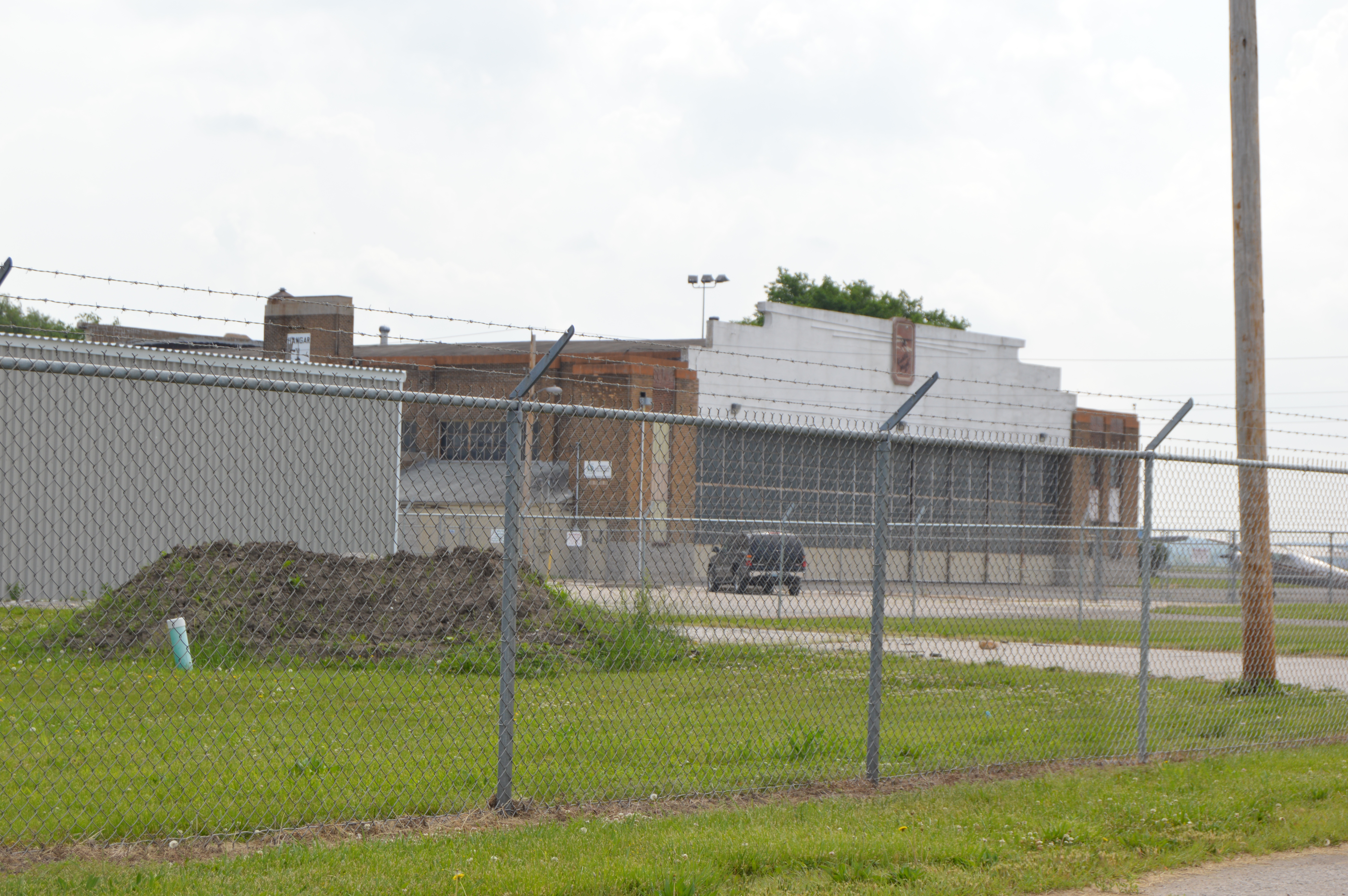 Front of one of the Curtiss-Wright Hangars, located at the St. Louis Downtown Airport in Cahokia, Illinois, United States. Built in 1928, it is listed on the National Register of Historic Places.